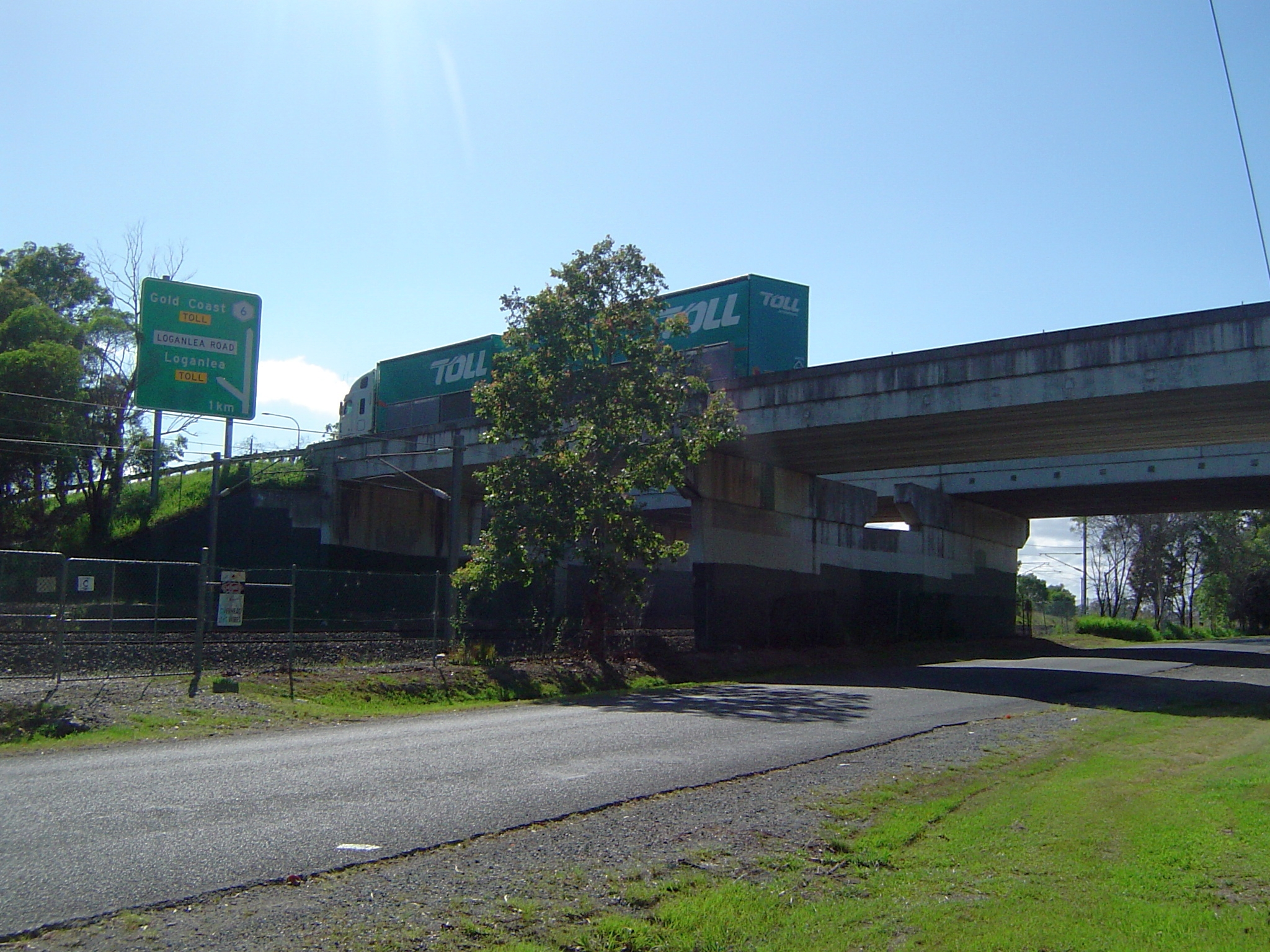 Photo of Railway Parade, Logan Motorway, Beenleigh railway line in Loganlea, City of Logan, Queensland, Australia.